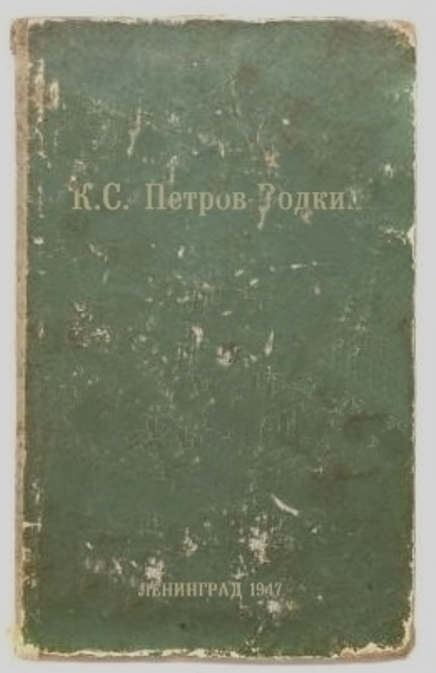 Биография, каталог выставки — ЛССХ, Ленинград, 1947.